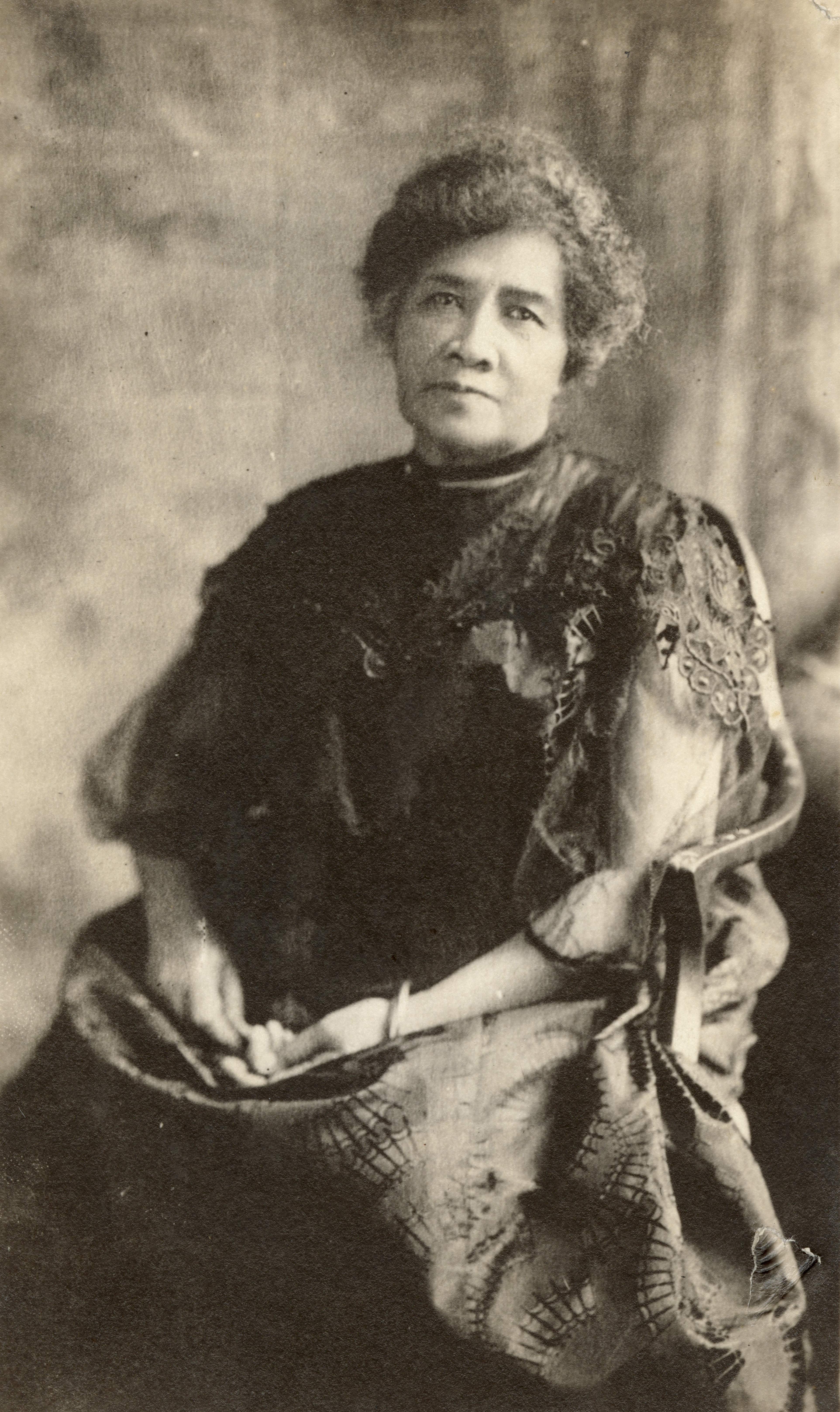 Photograph of Queen Lili‘uokalani taken in 1912 or 1913 when she was 74 years old.